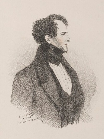 Portrait of Sir Henry St John-Mildmay, 4th Baronet (1787–1848), English politician.